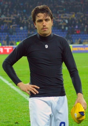 Nicola Pozzi